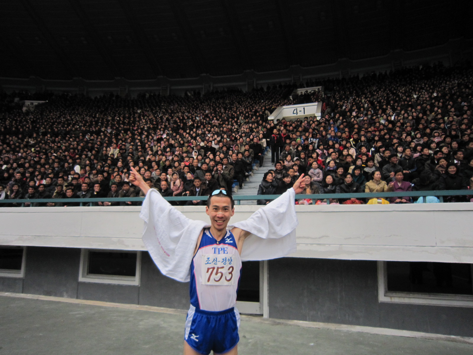 Mr Chia-Che Chang competed in 2012 Mangyongdae Prize International Marathon